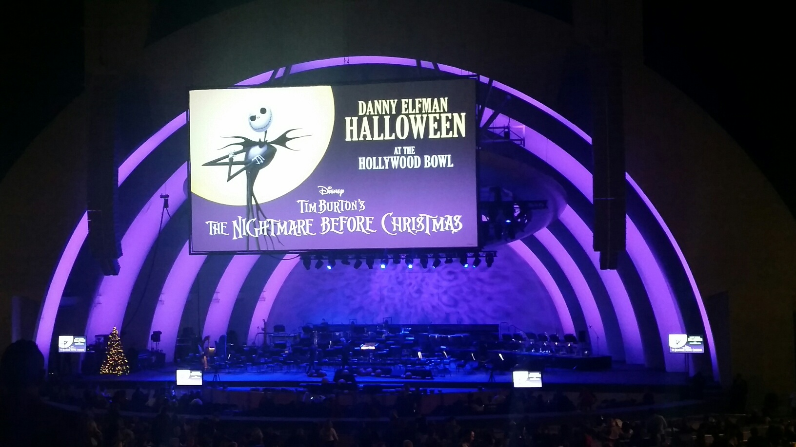 Danny Elfman, Halloween 2015 at Hollywood Bowl...Nightmare Before XMAS Live!!!